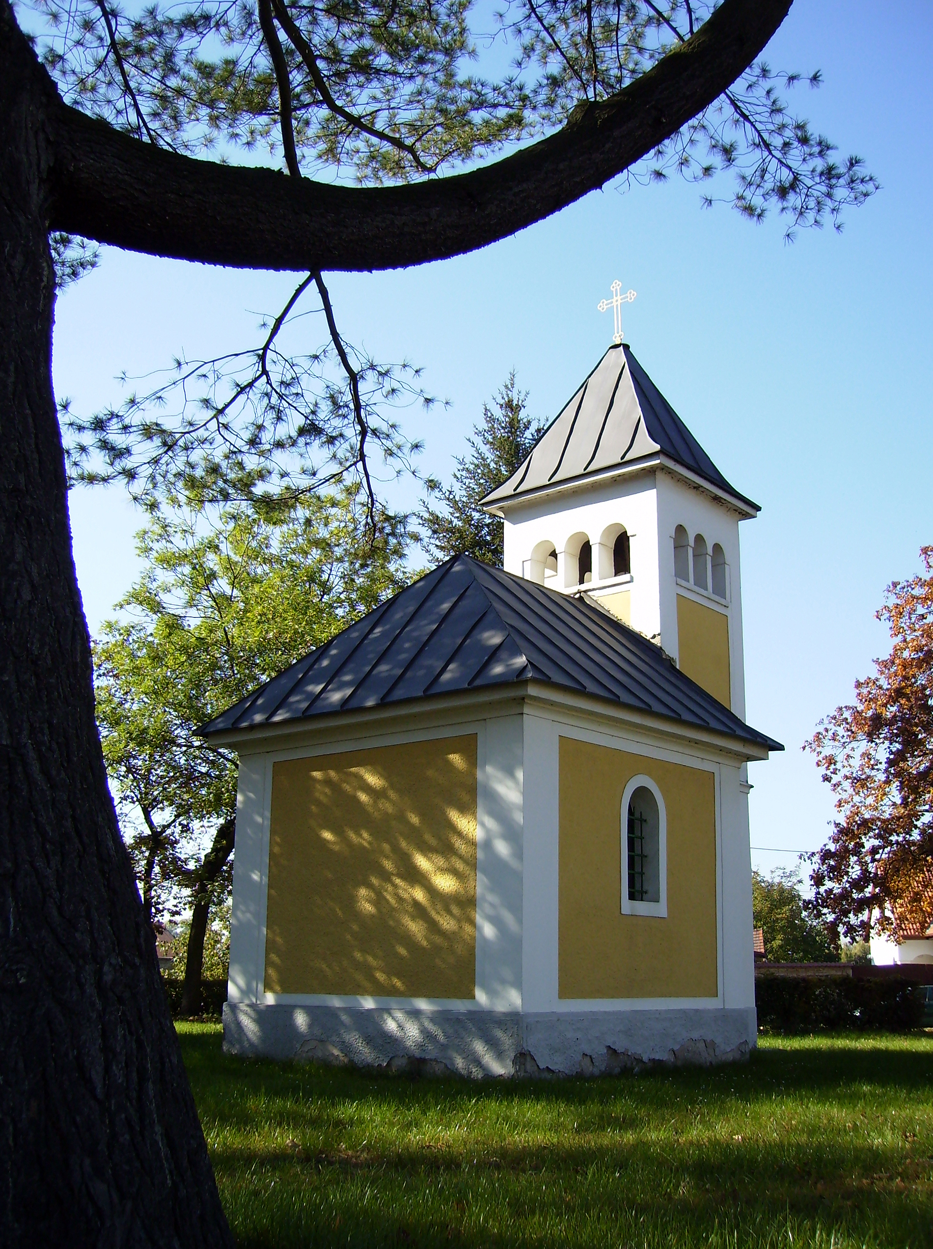 Chapel in Litol, part of Lysá nad Labem town, Nymburk District, Czech Reublic